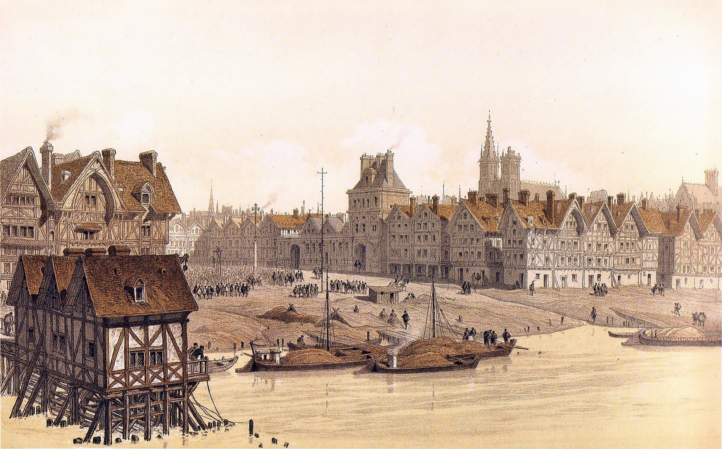 Engraving by Theodor Josef Hubert Hoffbauer (1839-1922), showing the Hôtel de Ville de Paris in 1583.